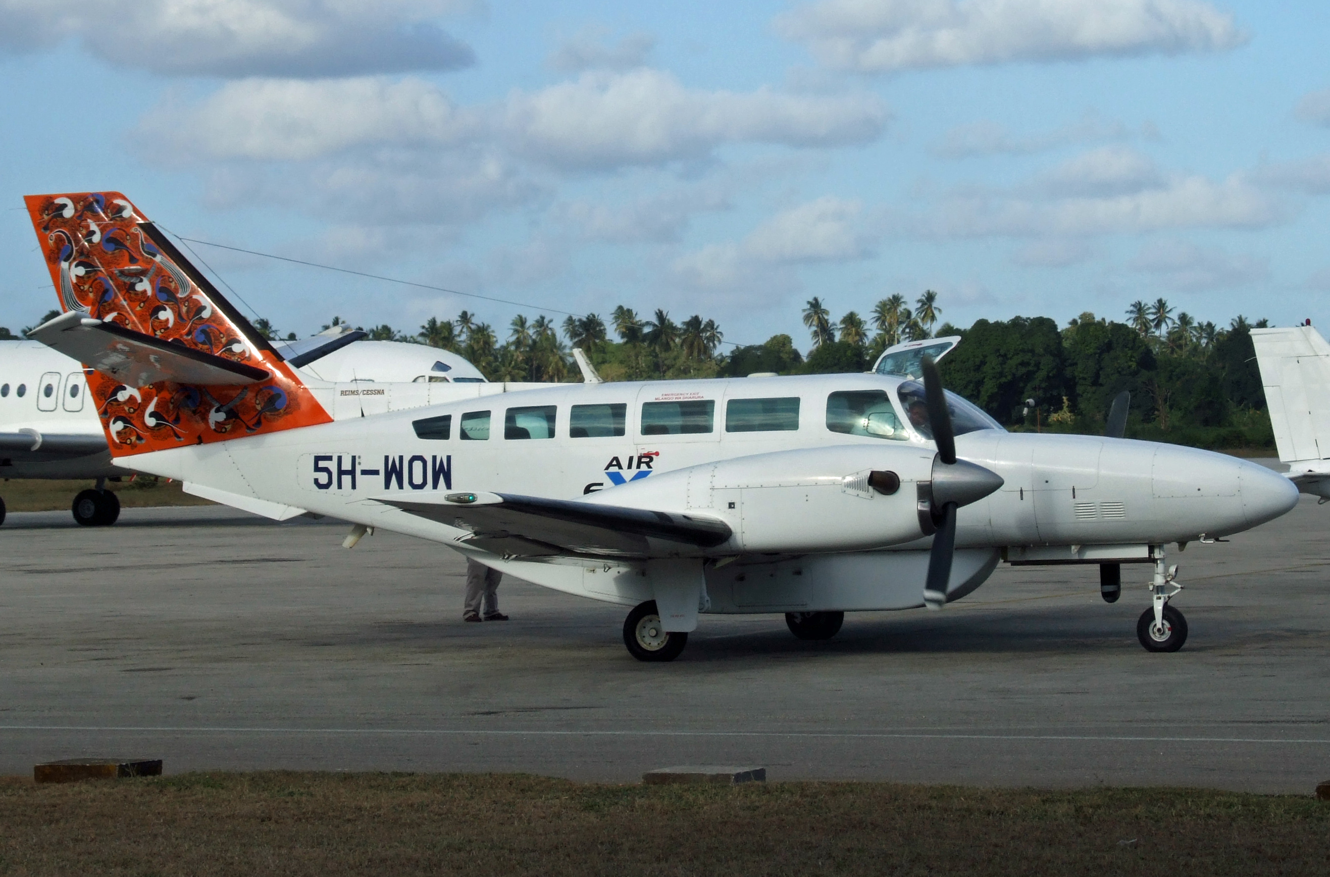 Tanzanian airplane with Tingatinga-inspired tail fin.